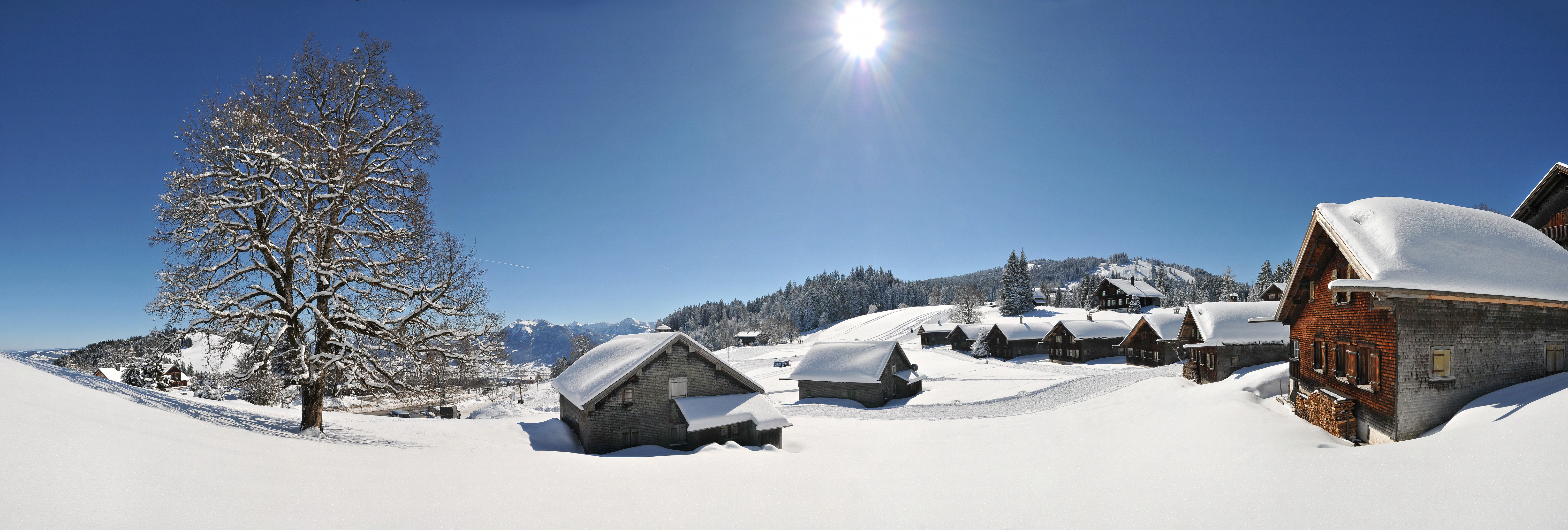 The Loosen Pass is an Alpine pass in the Bregenzerwald Mountain with an altitude of 1139 m above sea level. A. It is located on the territory of the Bödele in the Austrian province of Vorarlberg and connects the city Dornbirn in the Rhine Valley with the community Schwarzenberg in Bregenz Forest. The mountains on the image horizon from left to right: the Winterstaude 1.877m followed by the distinctive silhouette of the 23km away Hoher Ifen 2.230m, following the ski resort of Diedamskopf 2.090m shows the non-navigable northwest flank. NOTE: This image is a panorama consisting of multiple frames that were merged or stitched in software. As a result, this image necessarily underwent some form of digital manipulation. These manipulations may include blending, blurring, cloning, and colour and perspective adjustments. As a result of these adjustments, the image content may be slightly different from reality at the points where multiple images were combined. This manipulation is often required due to lens, perspective, and parallax distortions.